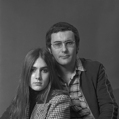 Portrait of Al Bano & Romina Power at the day of the Eurovision Song Contest 1976